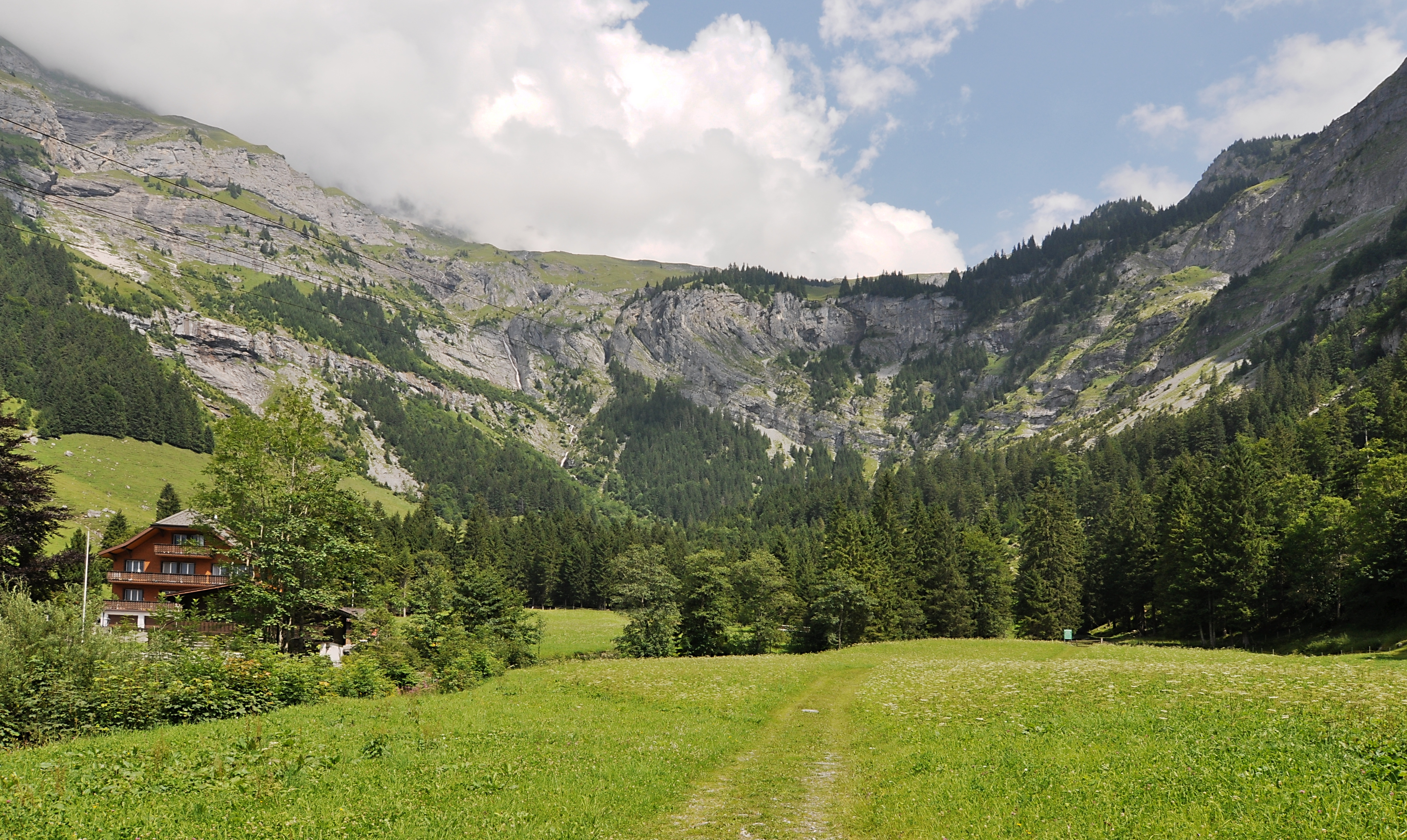 End der Welt (End of the World) near Engelberg